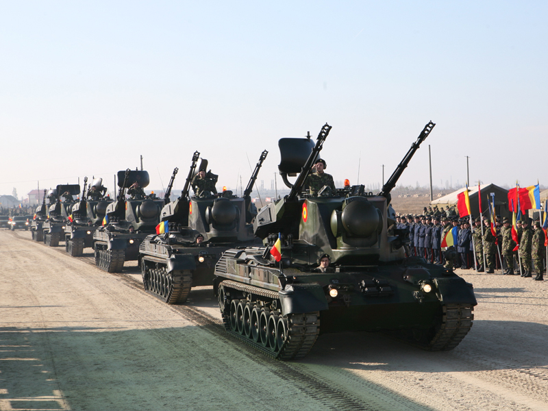 Romanian Gepard SPAAGs during a rehearsal for the National Day in 2008.